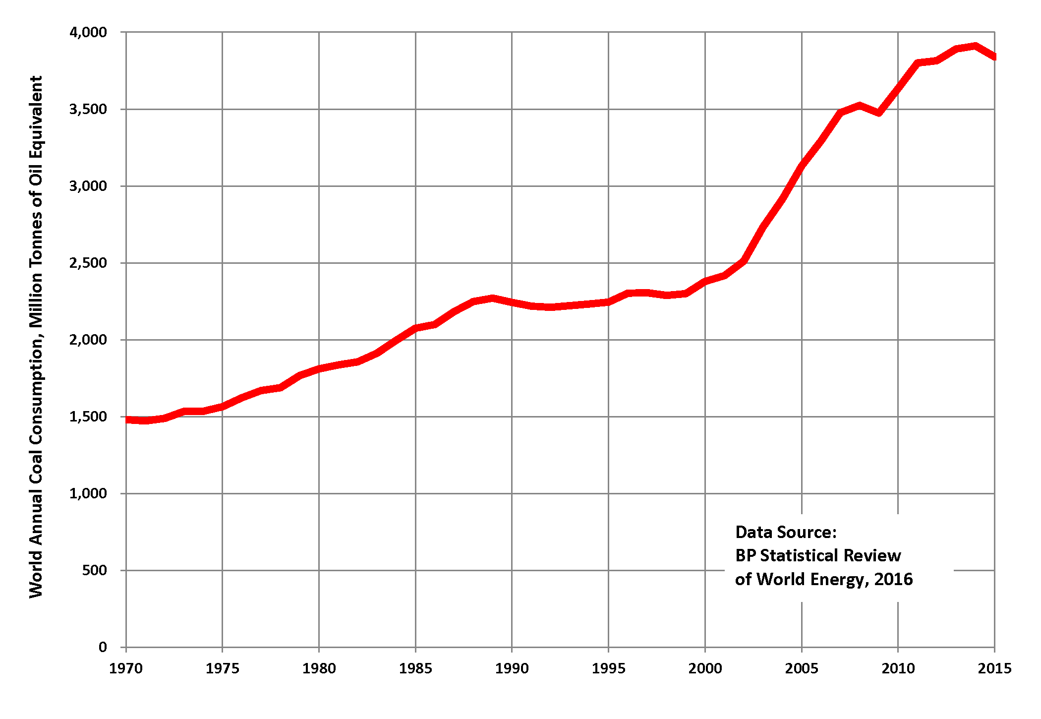 World annual coal consumption 1981-2015